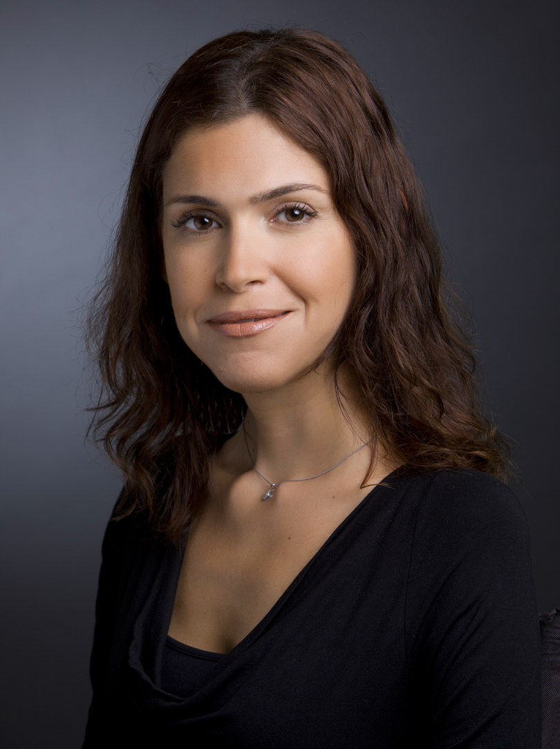 KARIN ELHARAR